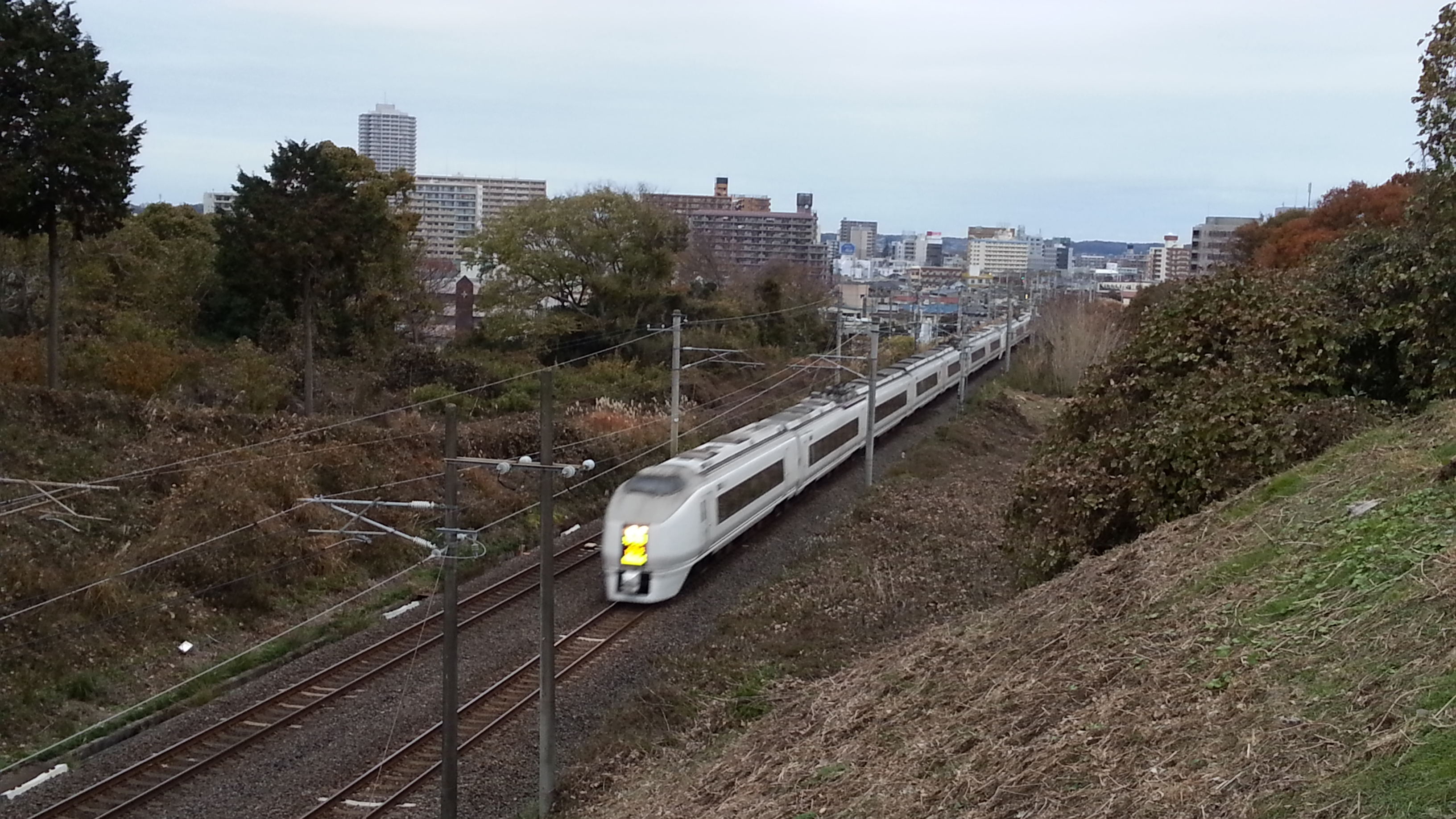 Joban line in Tsuchiura